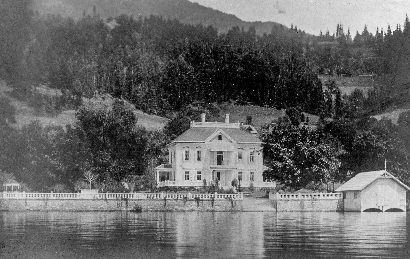 Villa Bacz, nowaday Seevilla (Villa at the lake) Schmidt in Dellach at Lake Millstatt in Carinthia / Austria / EU around 1900.